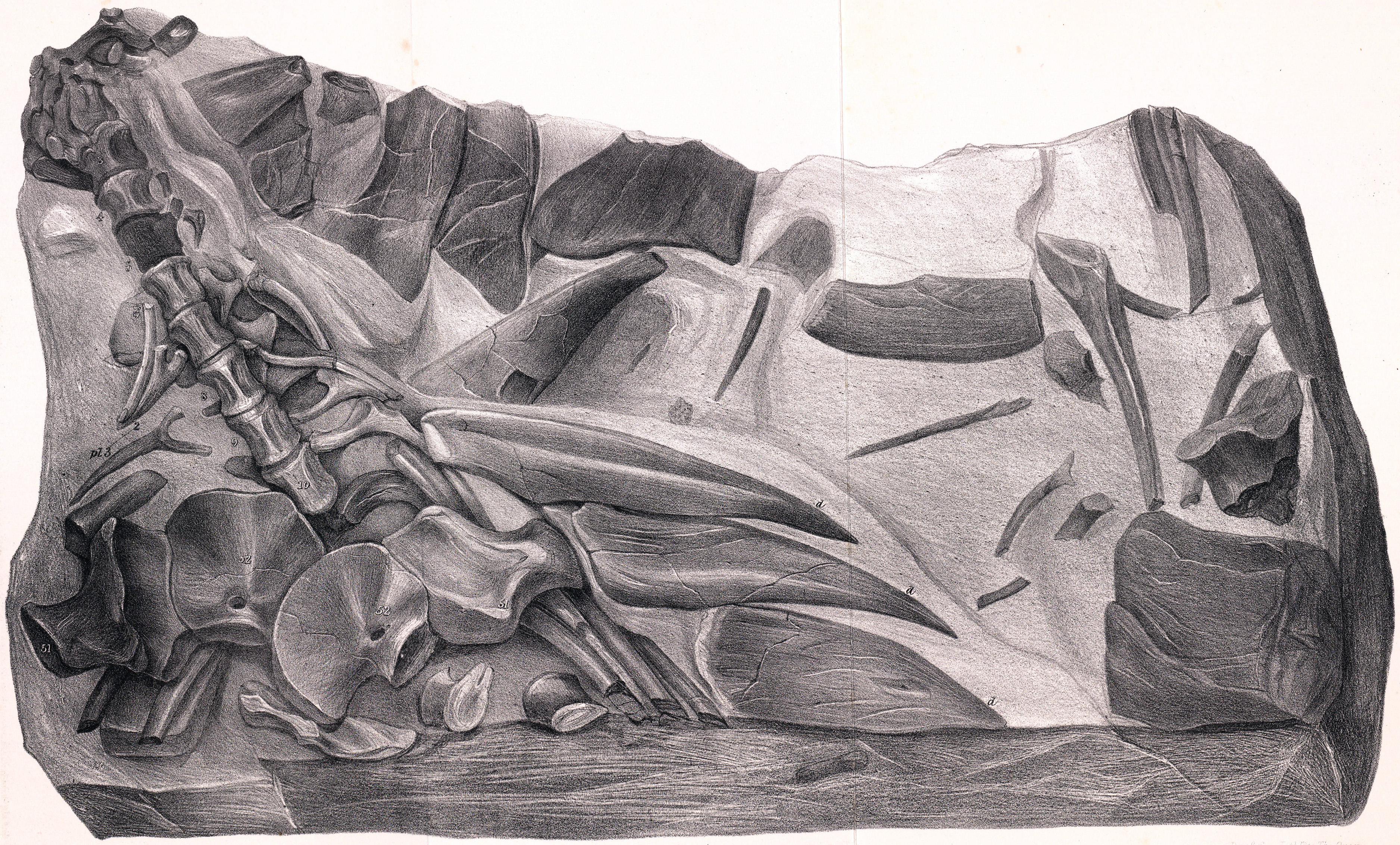 Hylaeosaurus fossil in its matrix, lithograph. Portion of the skeleton of the Hylæosaurus, one fourth nat. size. From the Wealden of Tilgate, Sussex. In the British Museum.